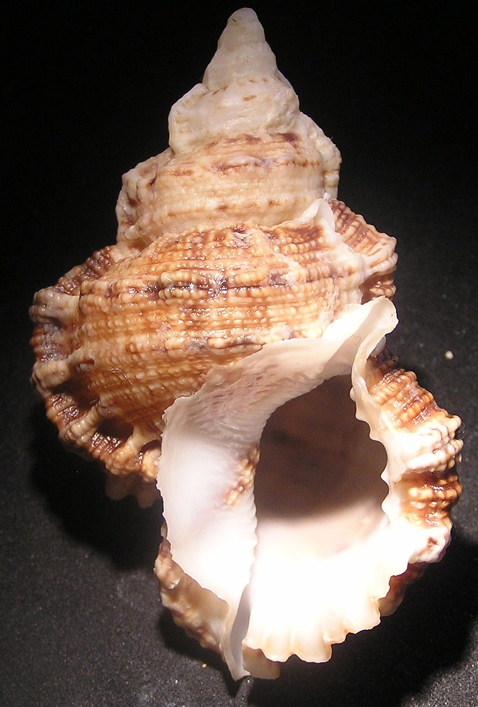 Tutufa (Tutufella) boholica Beu, 1987 ; a frog shell in the family Bursidae; Philippines